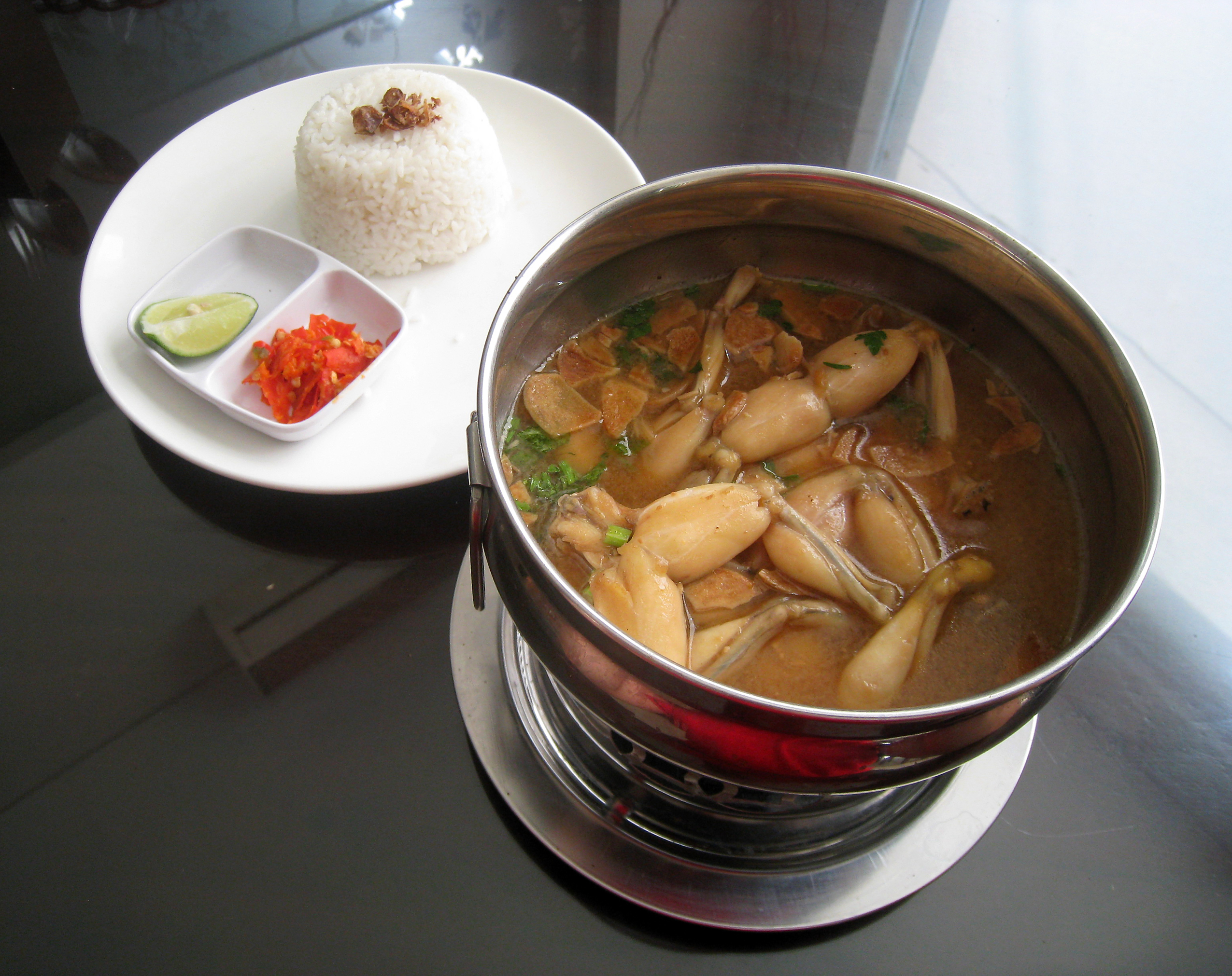 Kodok Oh is a kind of Swikee, Chinese Indonesian frog leg dish, cooked in tauco (fermented soybean paste) soup. Jalan Gajah Mada, Jakarta, Indonesia.